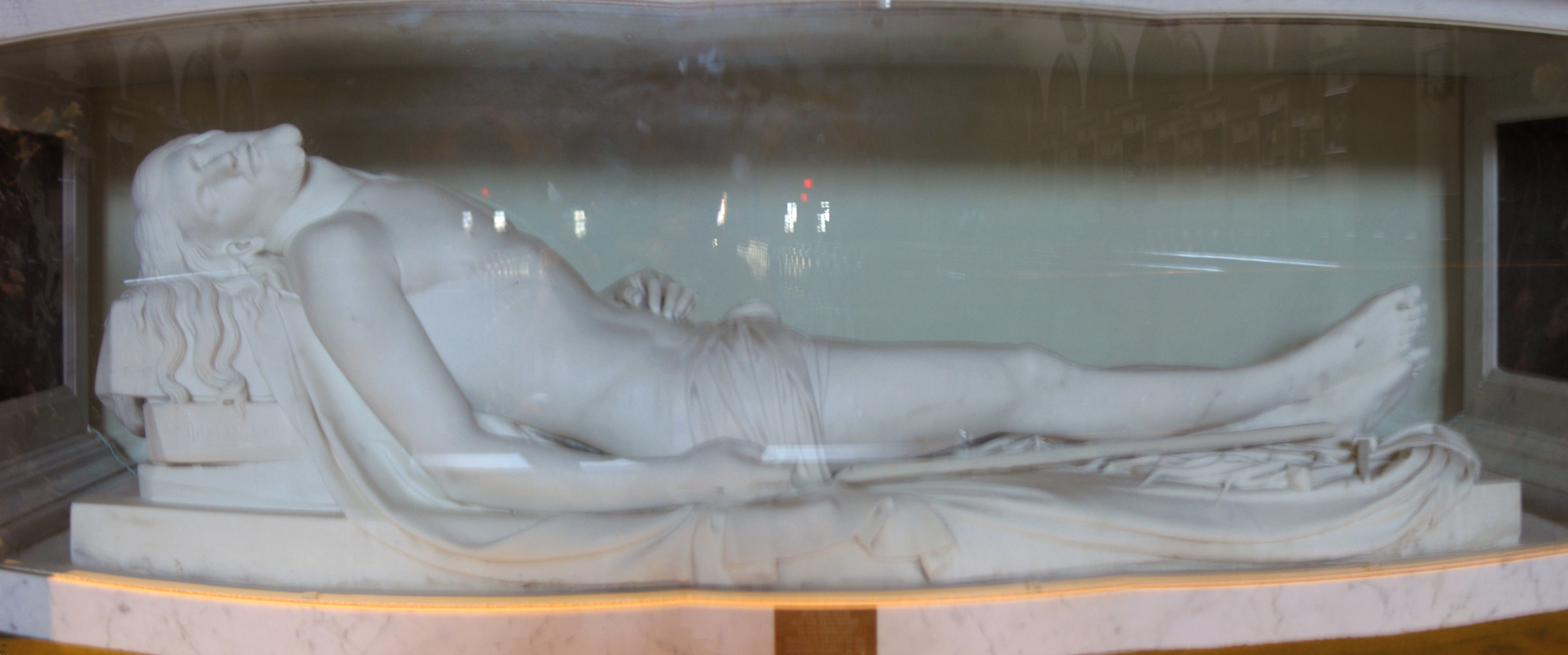 John Hogan's 'The Dead Christ' John Hogan (1800–1858) Description Irish sculptor Date of birth/death14 October 18001858Location of birth/deathTallowDublinAuthority control VIAF: 69790564 LCCN: n83214196 GND: 121661733 ULAN: 500091586 ISNI: 0000 0000 8001 6096 WorldCat